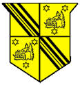 Hucknall Town's Logo from the 2013-14 Season